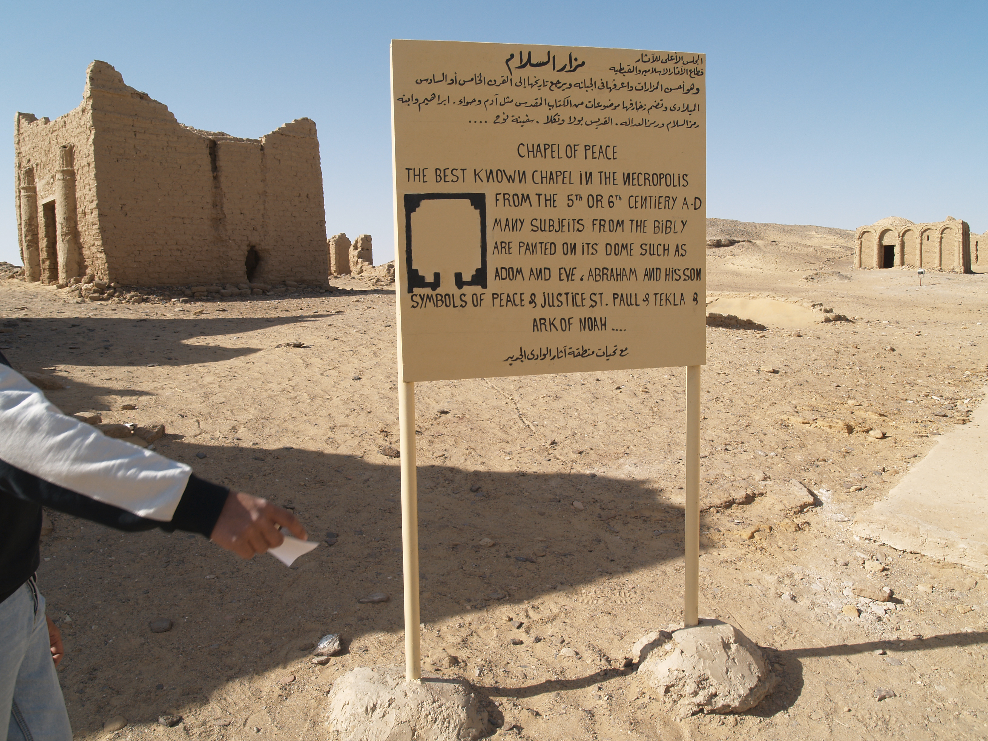 Al-Bagawat, also spelt as El-Bagawat, is an ancient Christian cemetery, one of the oldest in the world, which functioned at the Kharga Oasis in southern-central Egypt from the 3rd to the 7th century AD. It is one of the earliest and best preserved Christian cemeteries in the ancient world.